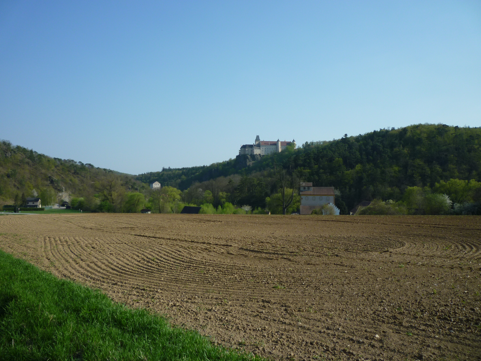 Archaeological Site Hofmühle, Rosenburg on Kamp, Lower Austria, Austria